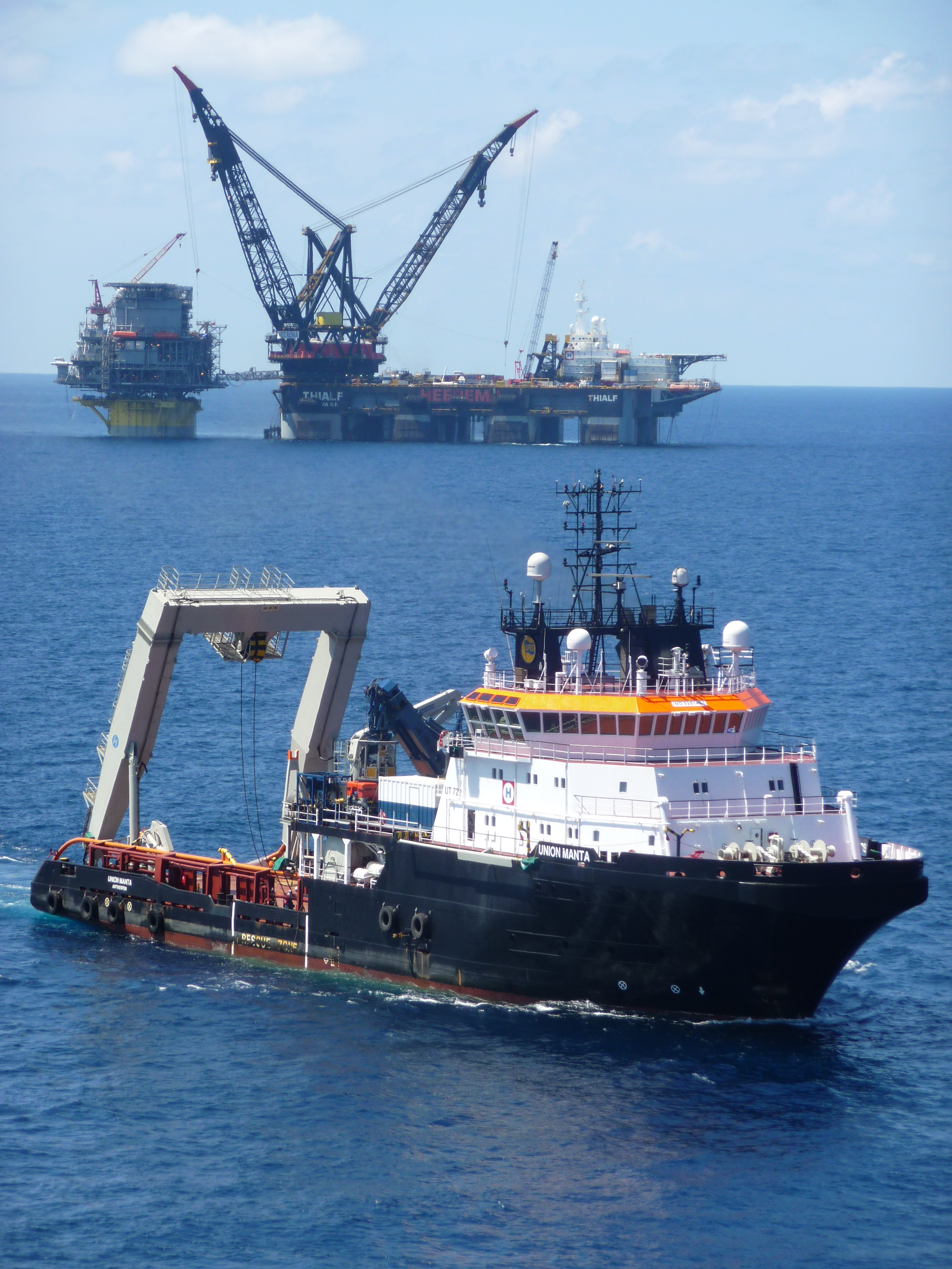 Union Manta with Thialf at Perdido IMO Number: 9261487 MMSI Number: 205340000 Callsign: ORKJ Length: 76 m Beam: 18 m